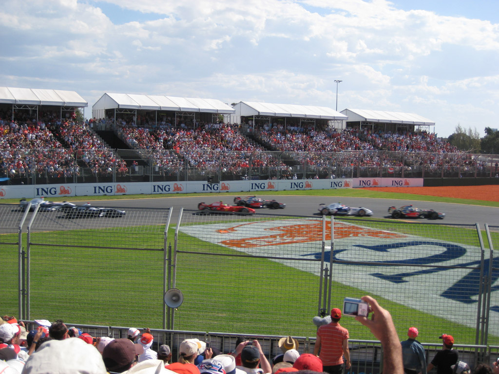 Start 2008 Australian Grand Prix